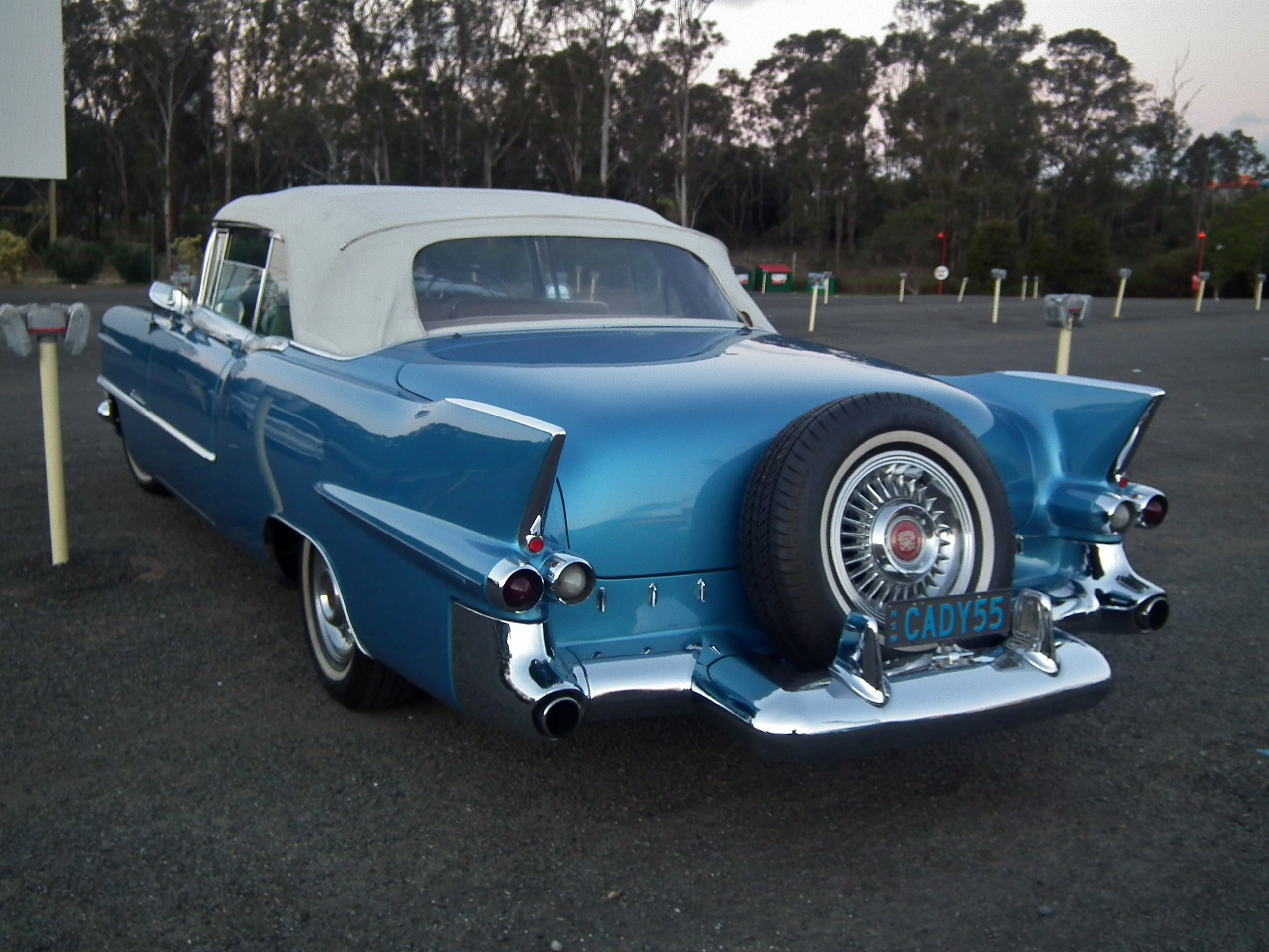 1955 Cadillac Eldorado convertible. Taken at the Atura Drive-In at Blacktown during a special showing of "American Graffiti".